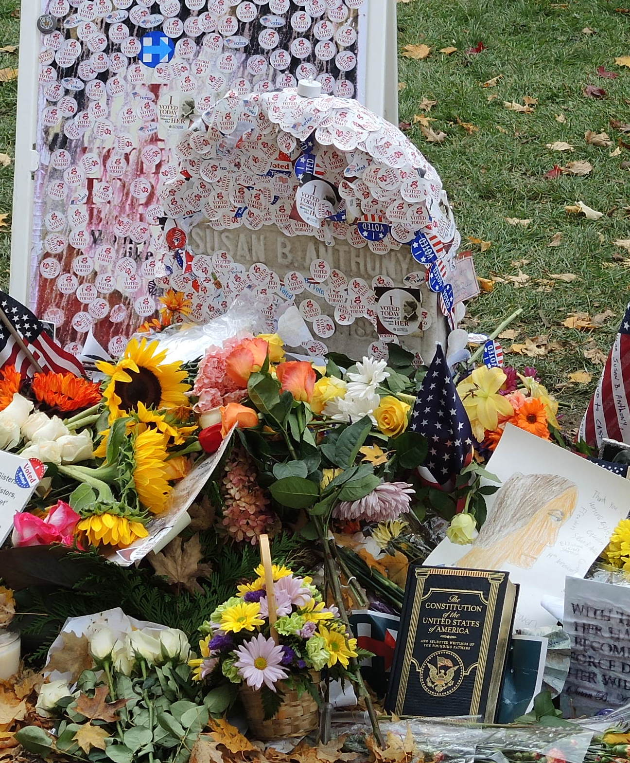 The gravestone of Susan B. Anthony in Mount Hope Cemetery (Rochester, New York) on the day after the United States presidential election, 2016. Wellwishers have affixed "I Voted Today!" stickers to the gravestone.